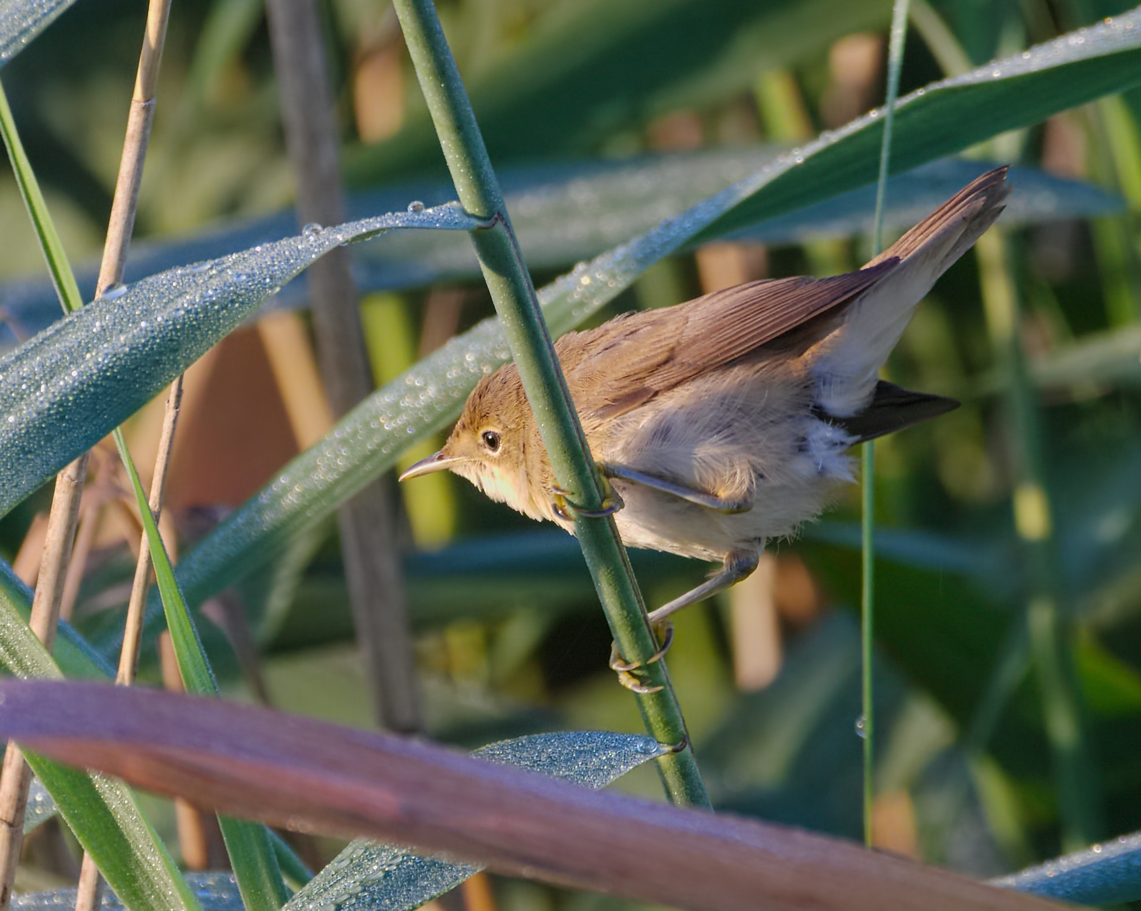 Eurasian reed warbler - Acrocephalus scirpaceus. Taken by the Westensee in Felde, Schleswig-Holstein, Germany.